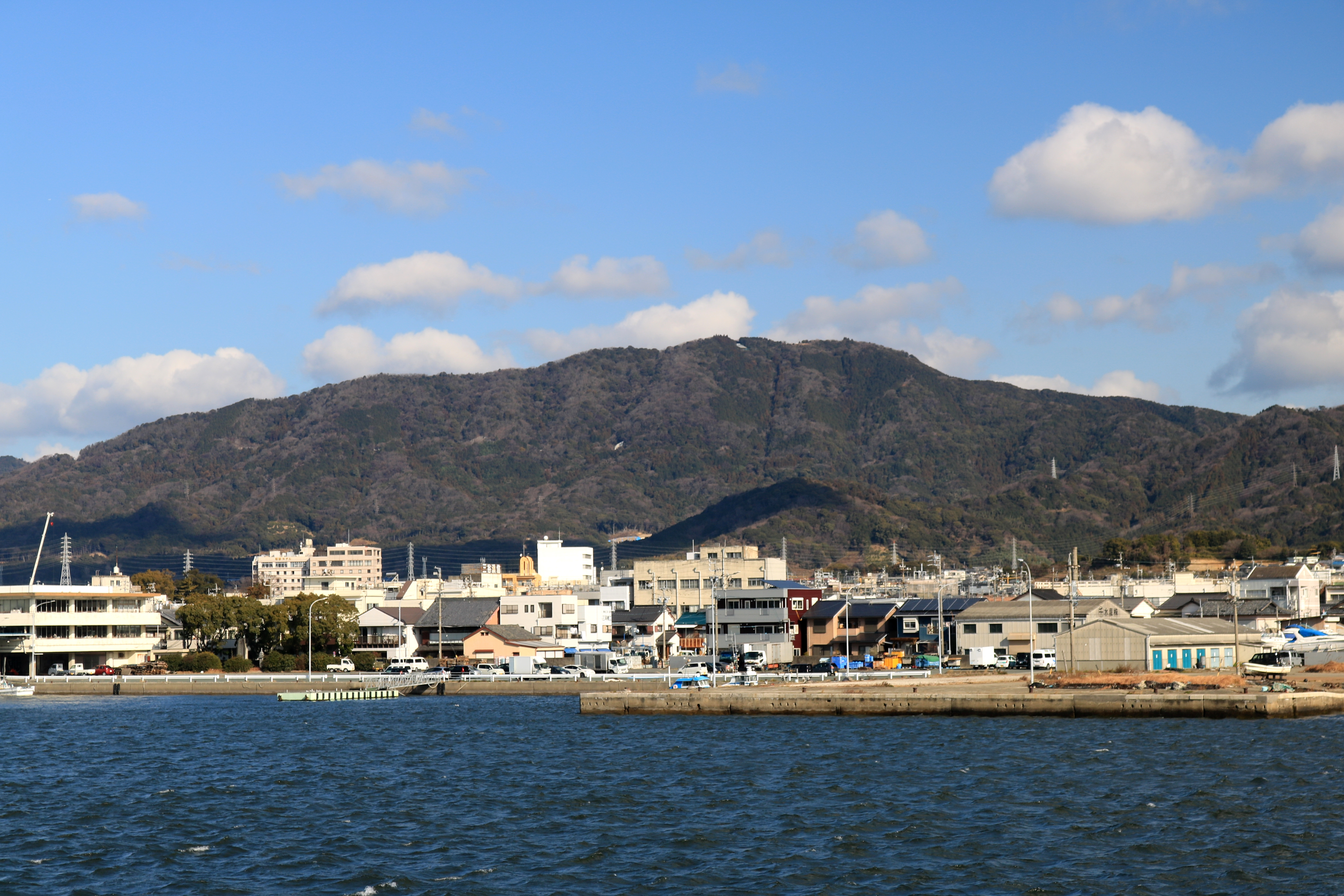 Mount Goi seen from Port of Miya inn Gamagori, Aichi prefecture, Japan.